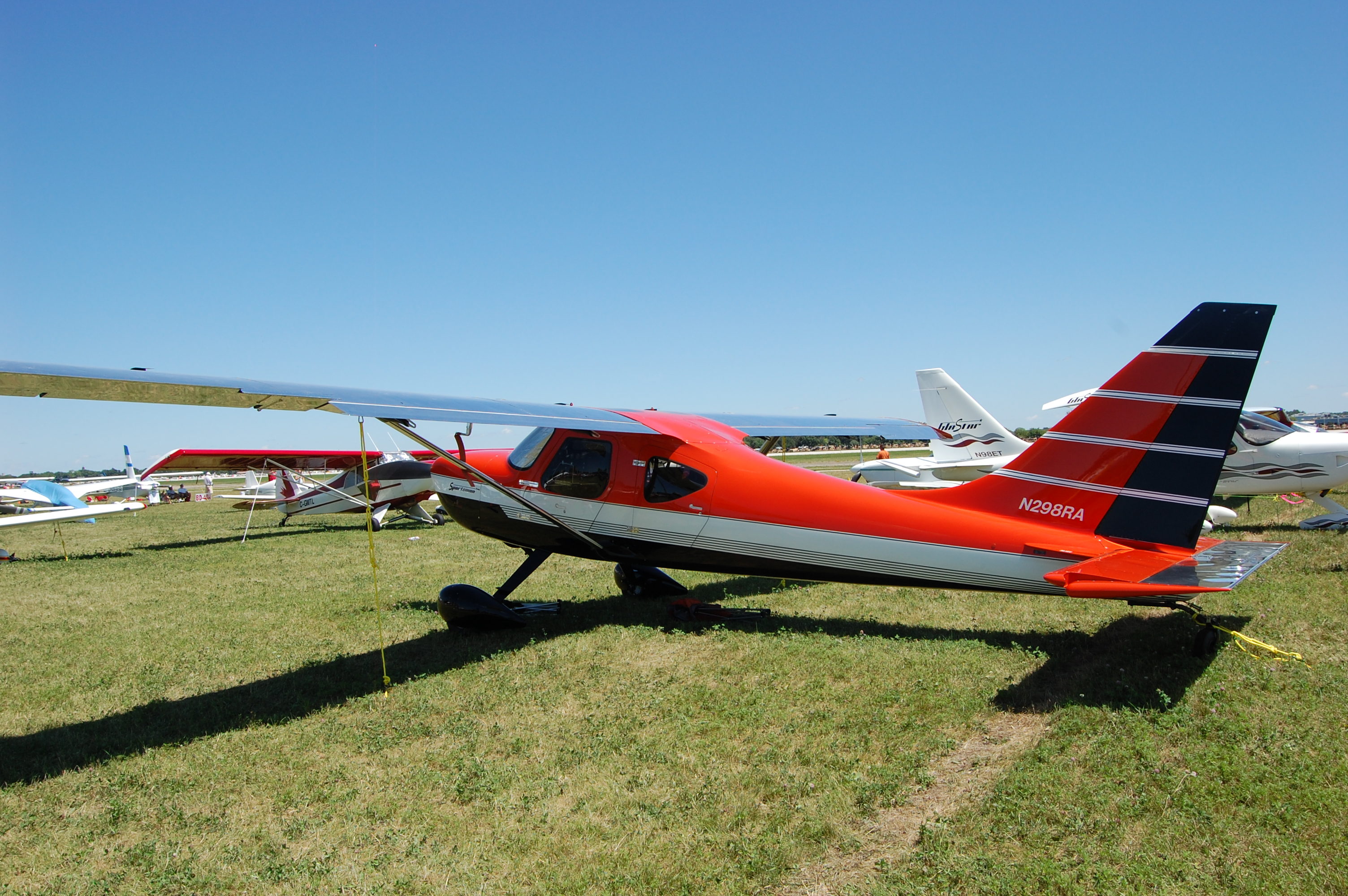 the three-quarter view of a Glasair Sportsman 2+2 parked in teh homebuilt section of EAA AirVenture 2011.